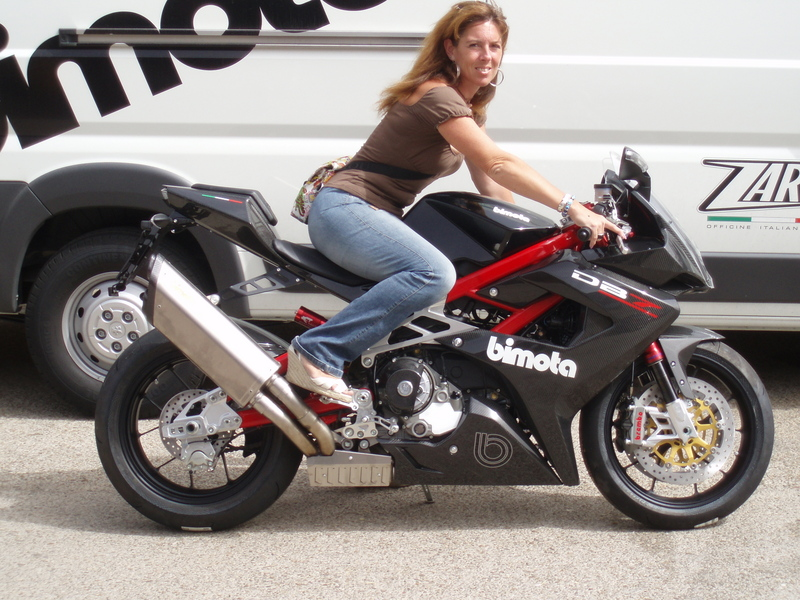 Bimota DB7 with red frame, especialy for spanish market.